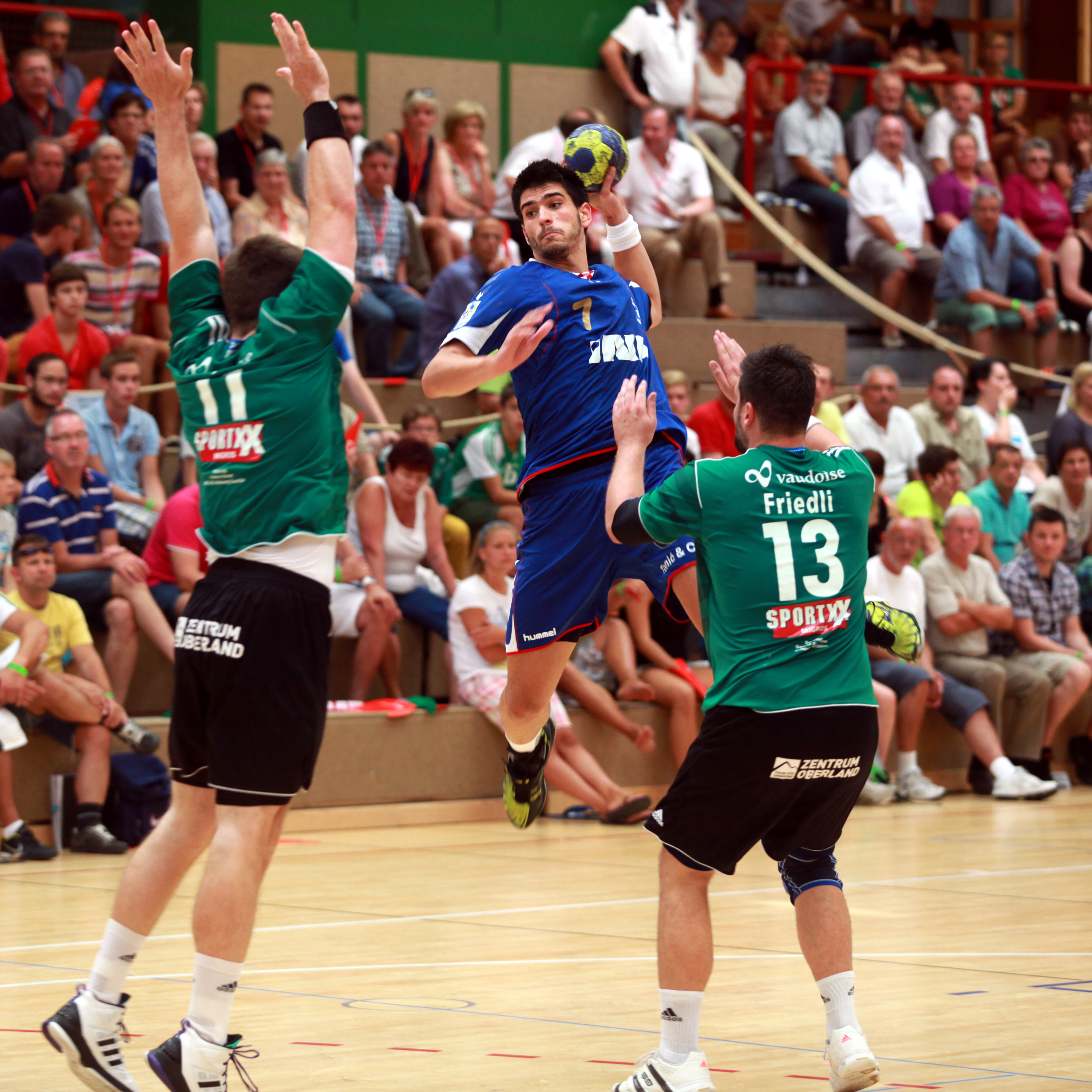 Luka Stepančić, on August 18th, 2012 in Ehingen (Germany), during the Sparkassen Cup (formerly known as Schlecker Cup).